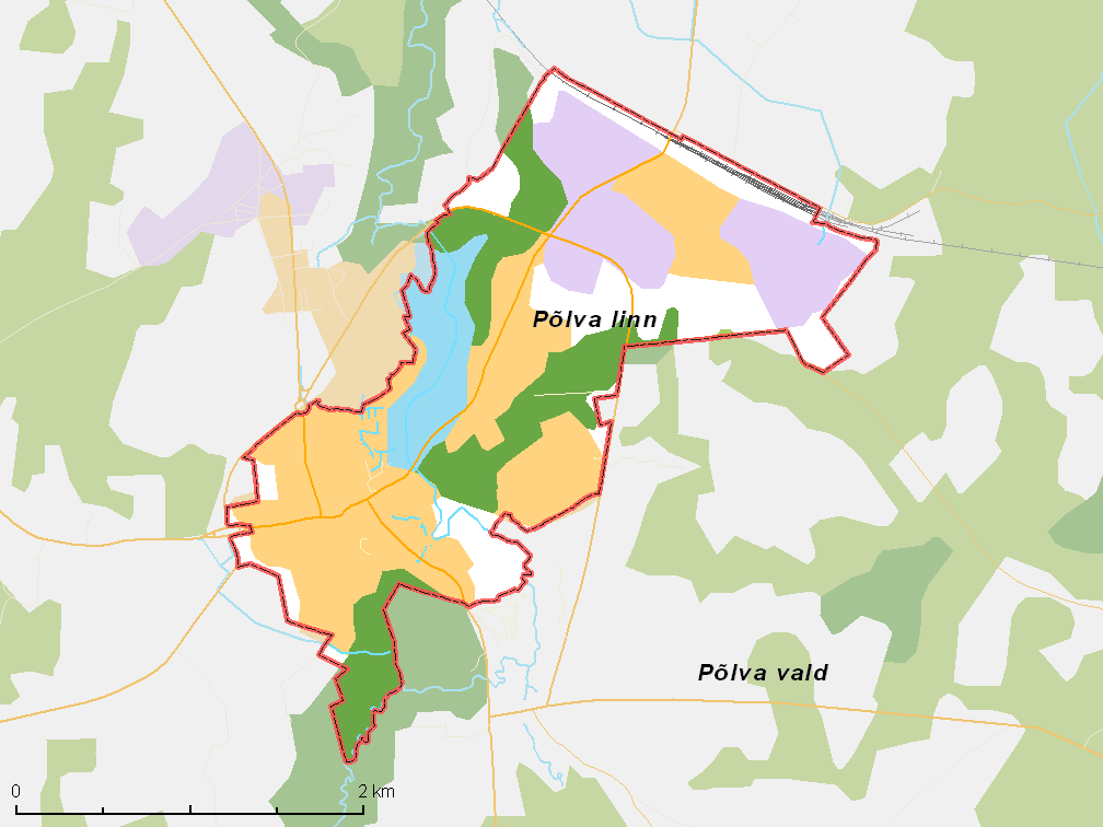 Map of municipality in Estonia